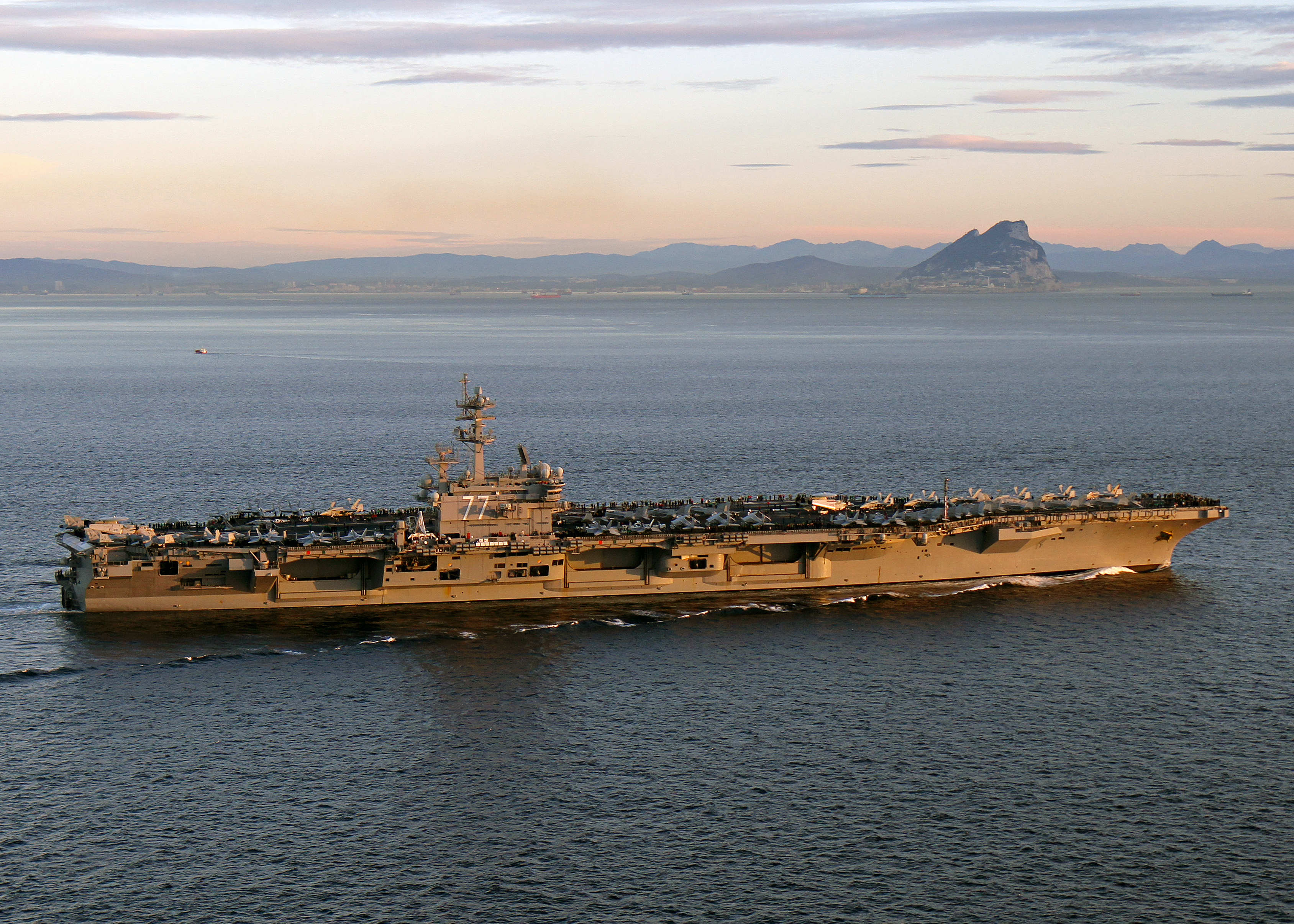 The U.S. Navy aircraft carrier USS George H.W. Bush (CVN-77) transits the Strait of Gibraltar. George H.W. Bush, with assigned Carrier Air Wing 8 (CVW-8), was on a scheduled deployment supporting maritime security operations and theater security cooperation efforts in the U.S. 5th and 6th Fleet areas of responsibility.